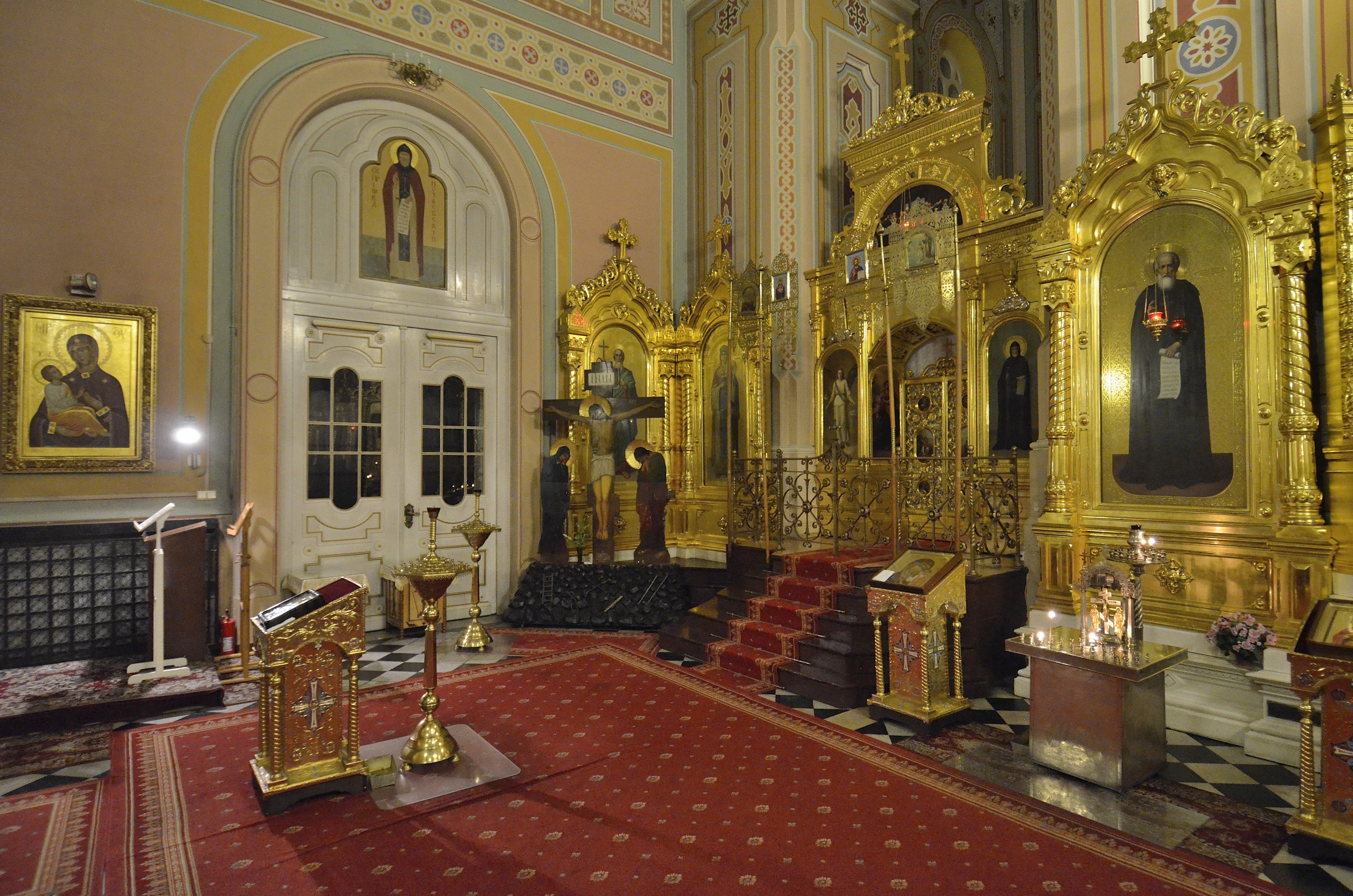 Interior of Metropolitan Orthodox Cathedral of St. Mary Magdalene in Warsaw